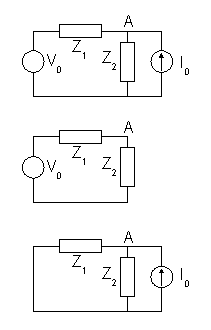 Circuit diagram for an example of the supersposition theorem. 2006